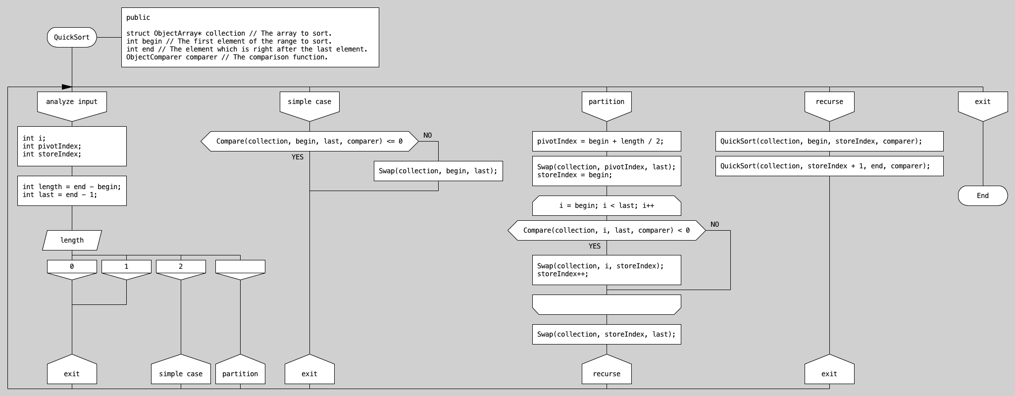 The DRAKON-C chart for the Quicksort sorting algorithm.